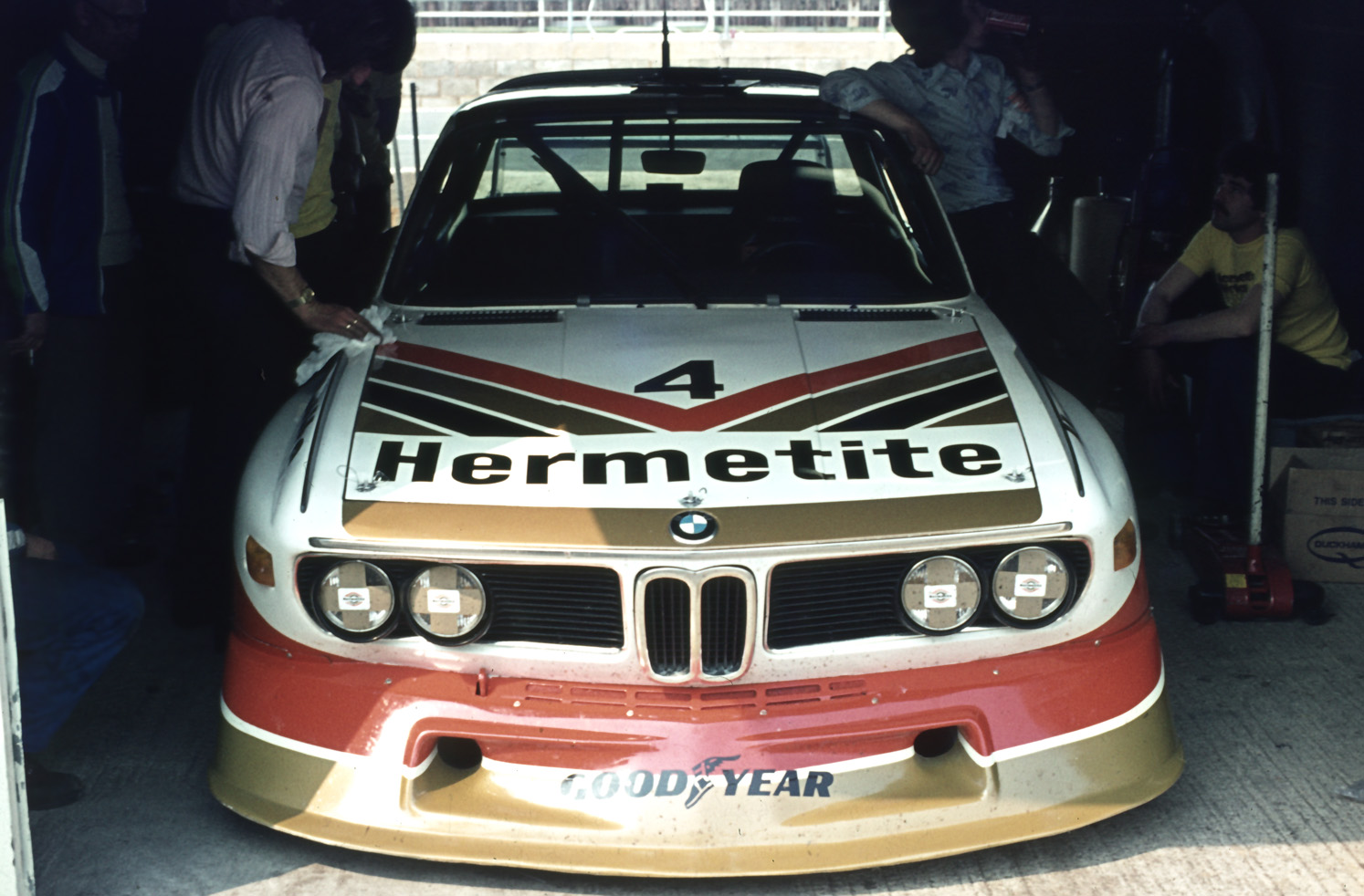 The winning BMW 3.5 CSL of John Fitzpatrick (GB) / Tom Walkinshaw (GB) at the Silverstone 6 Hours in the World Championship for Manufacturers 1976.